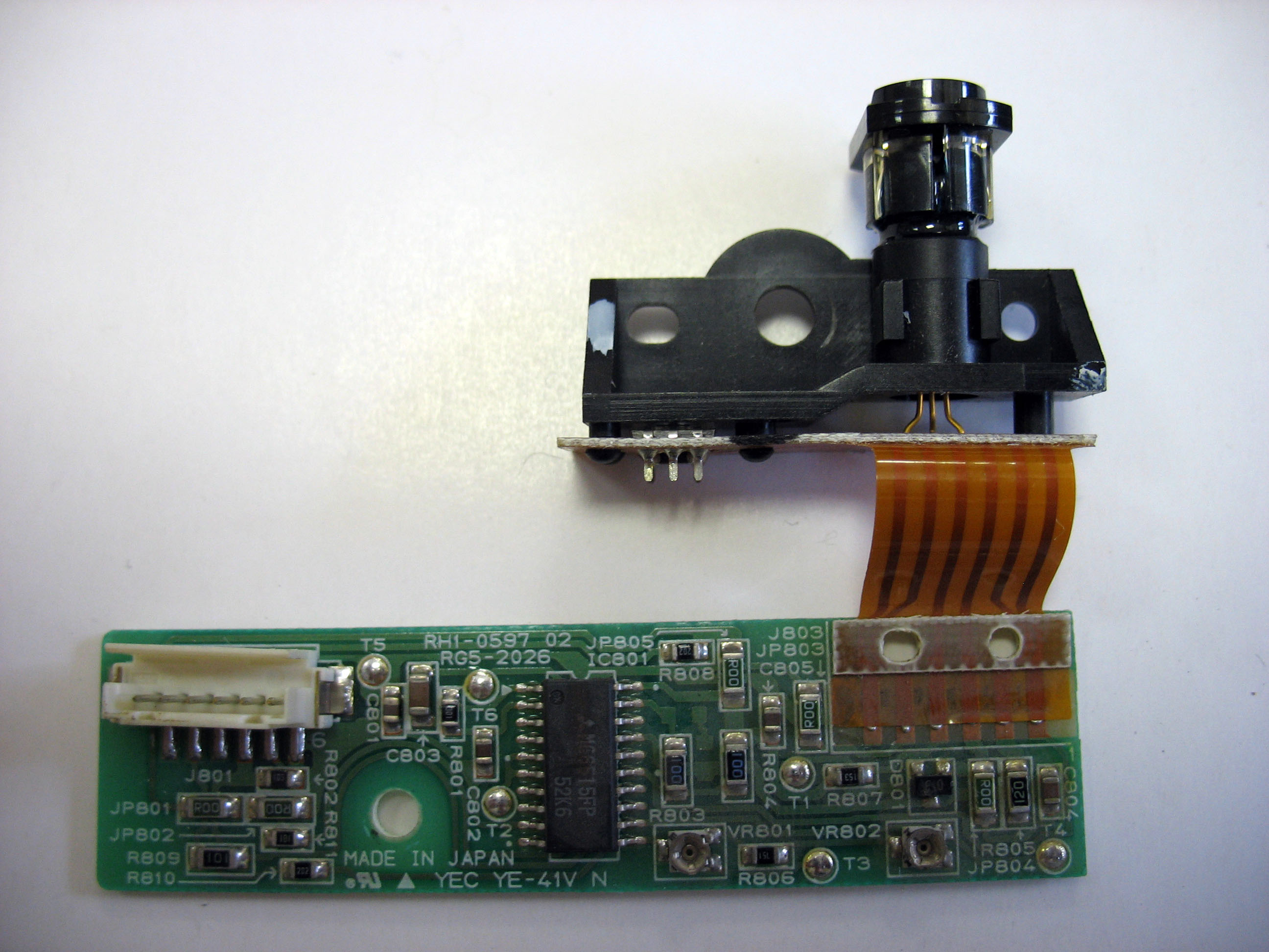 Laser LED from HP LaserJet5L printer